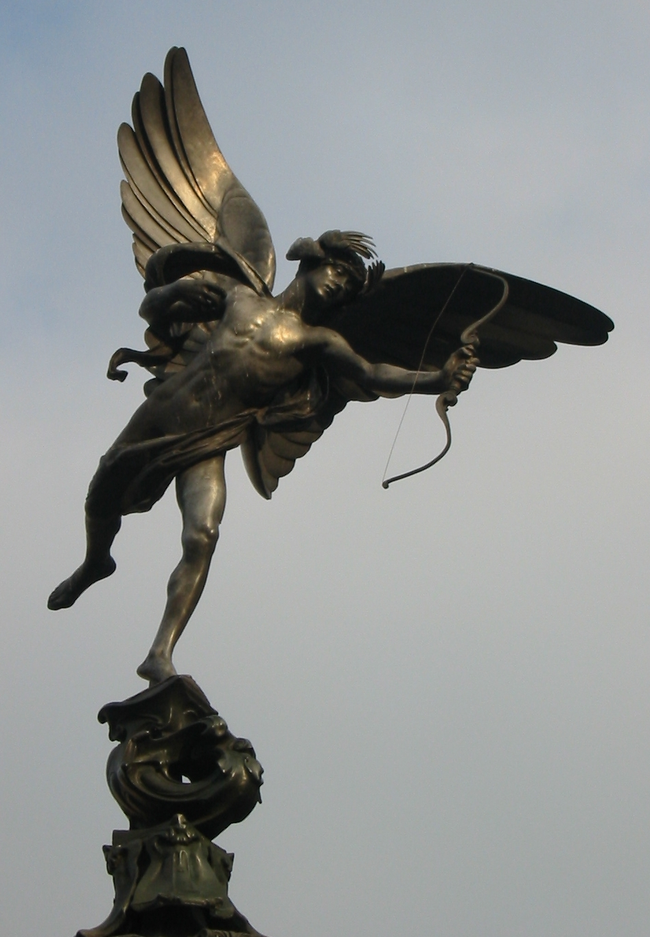 London